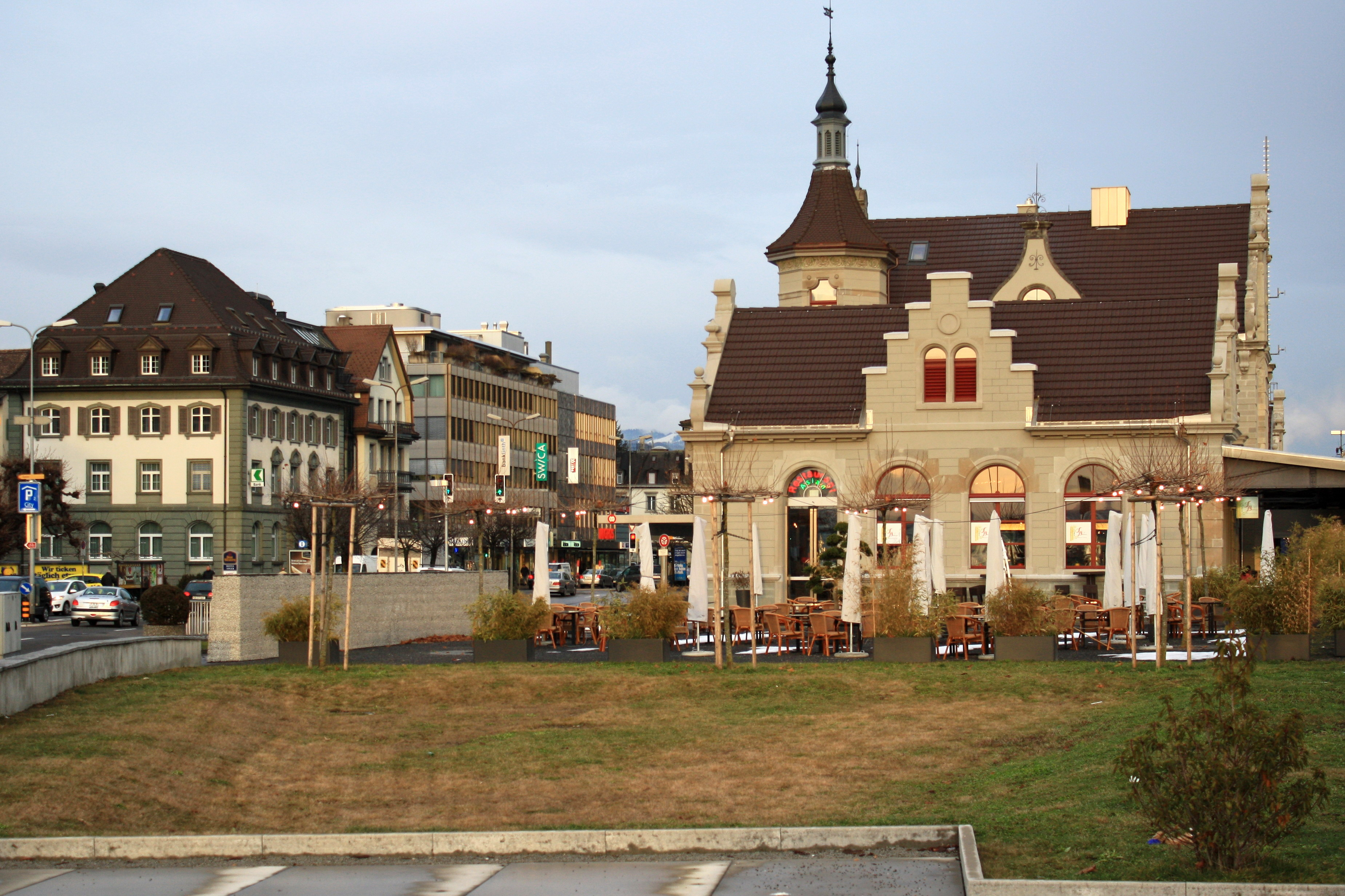 Train station respectively Untere Bahnhofstrasse in Rapperswil (Switzerland), as seen from nearby Seedamm.